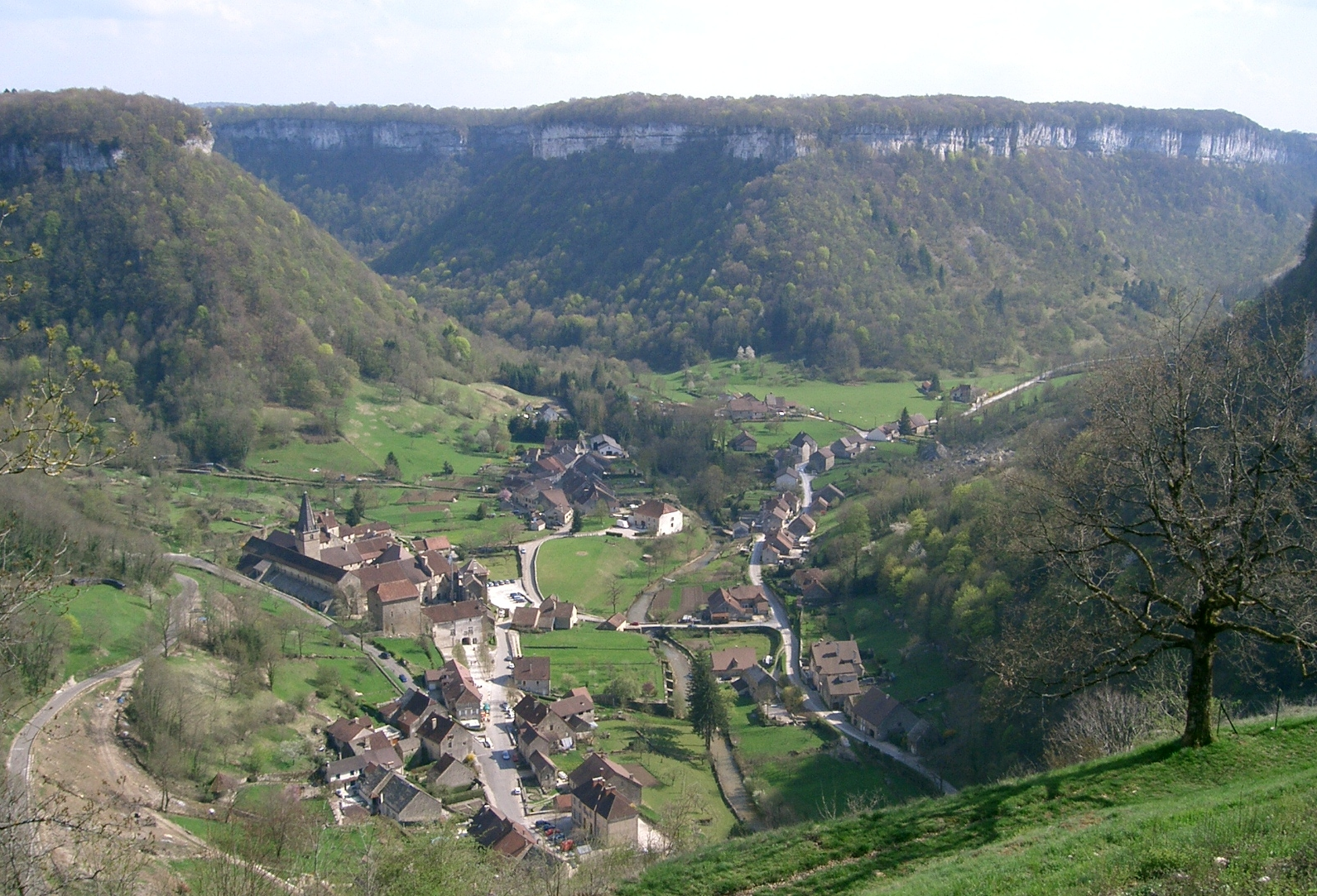 Baume les Messieurs im Cirque de Baume